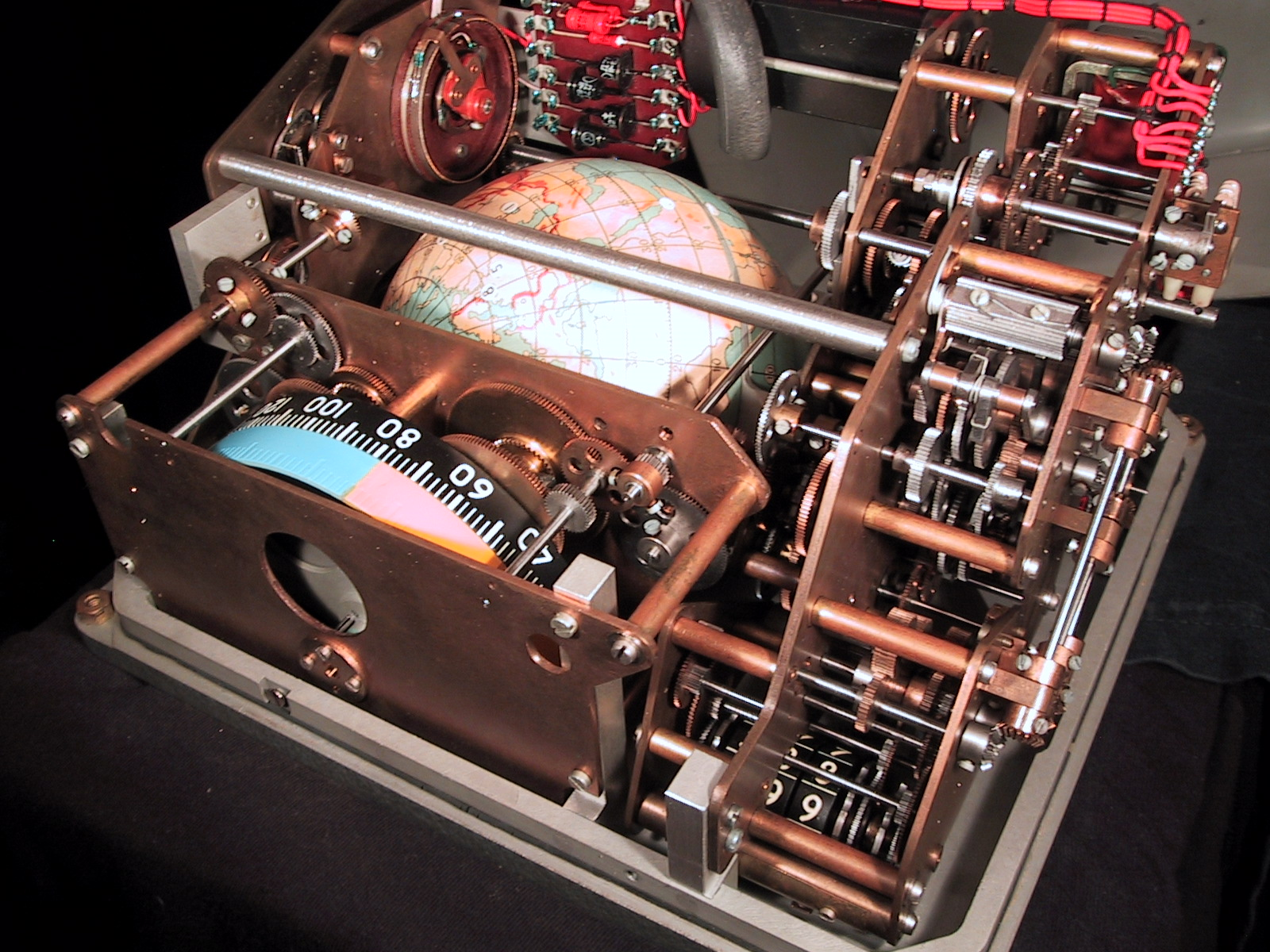 Voskhod spacecraft IMP "Globus" navigation instrument, inside view (private collection)